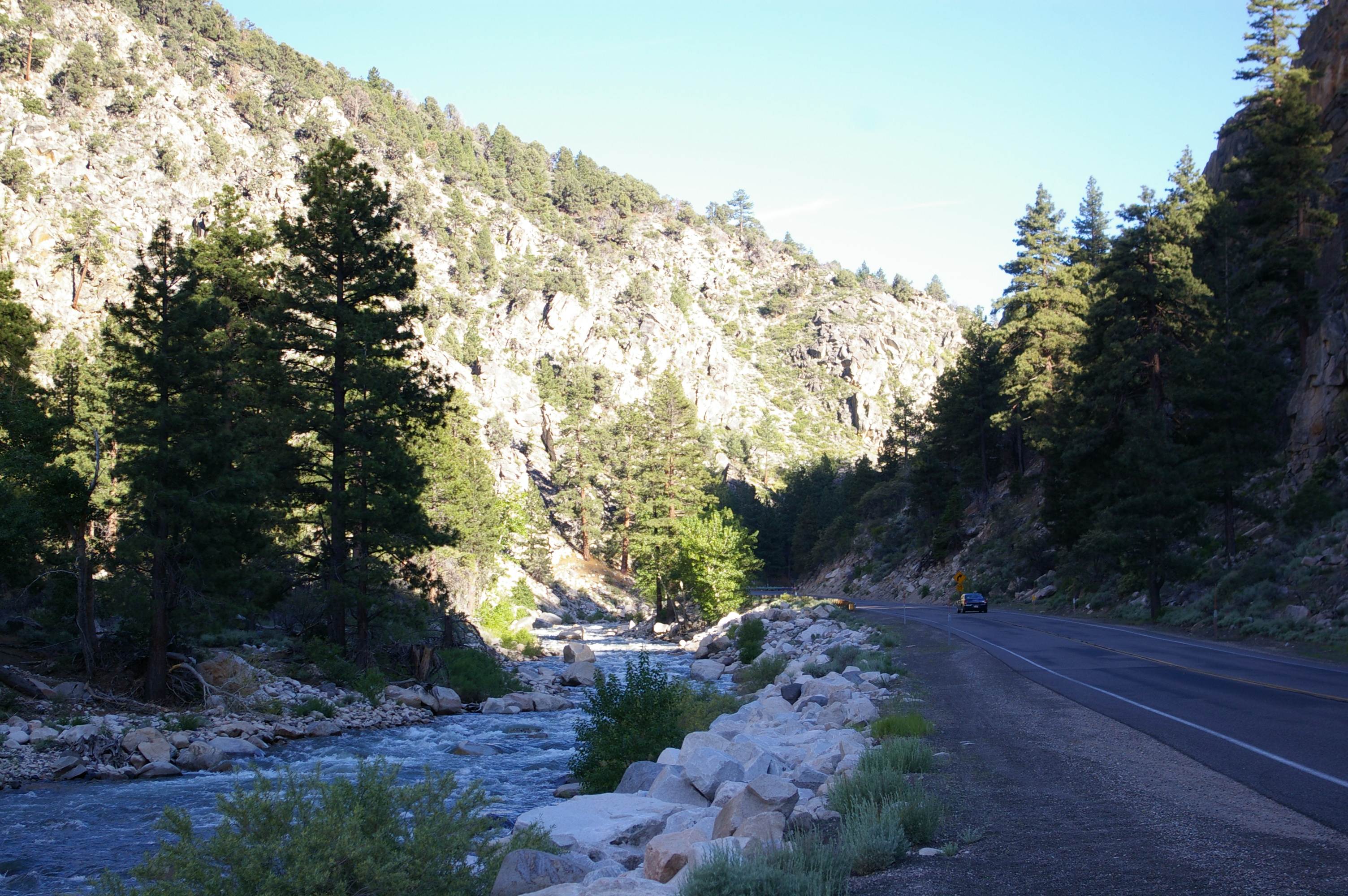 U.S. Route 395 in California following the Walker River